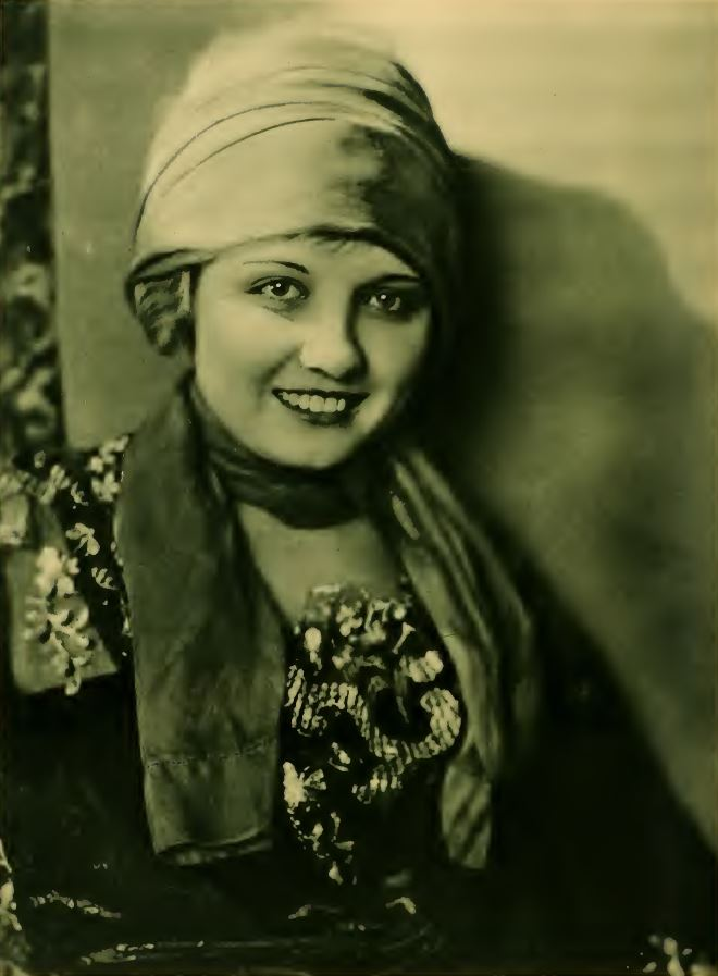 American actress Eva Novak on page 24 of the February 1921 Photoplay magazine.